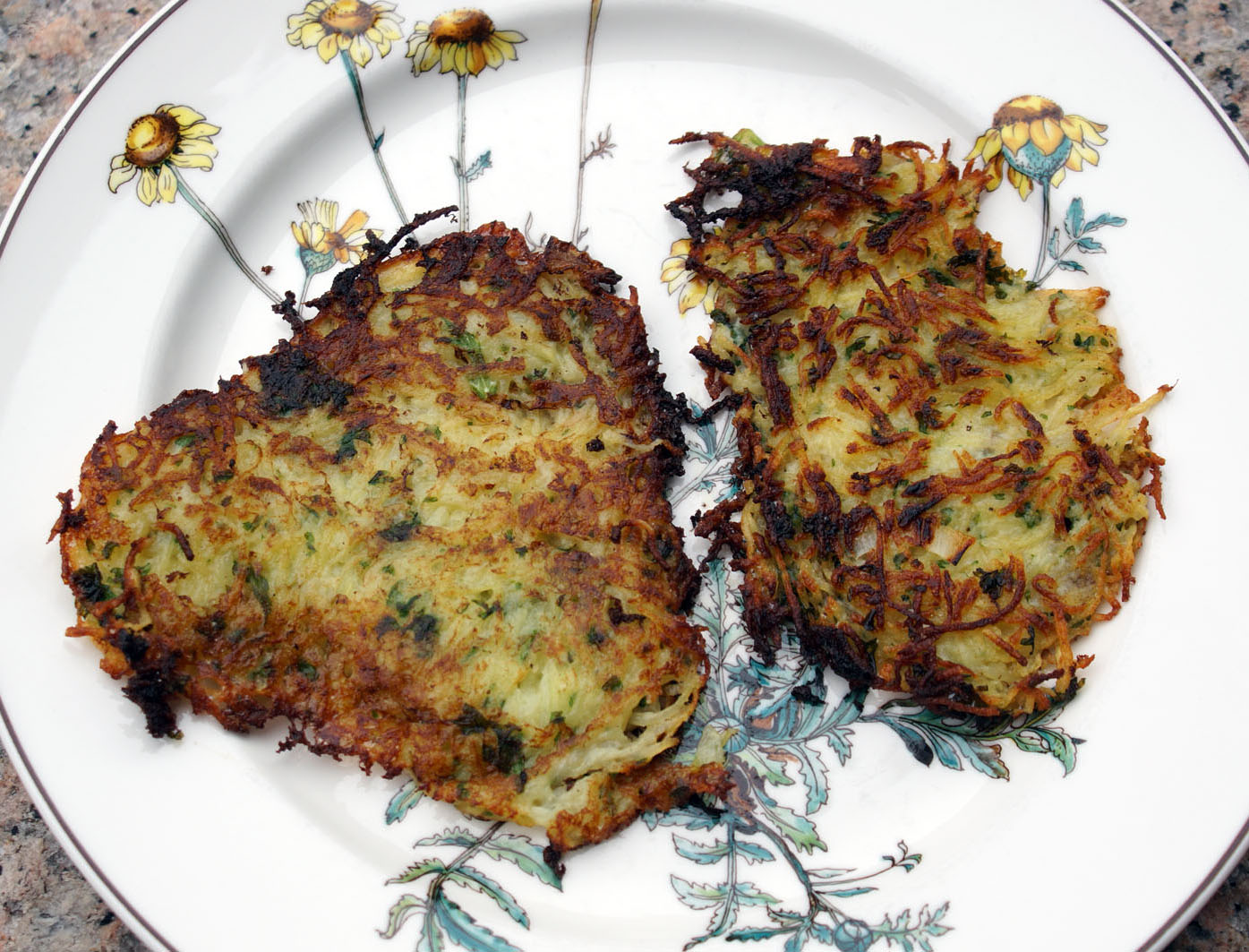 Luxembourg traditional potato pancakes called "Gromperekichelcher".